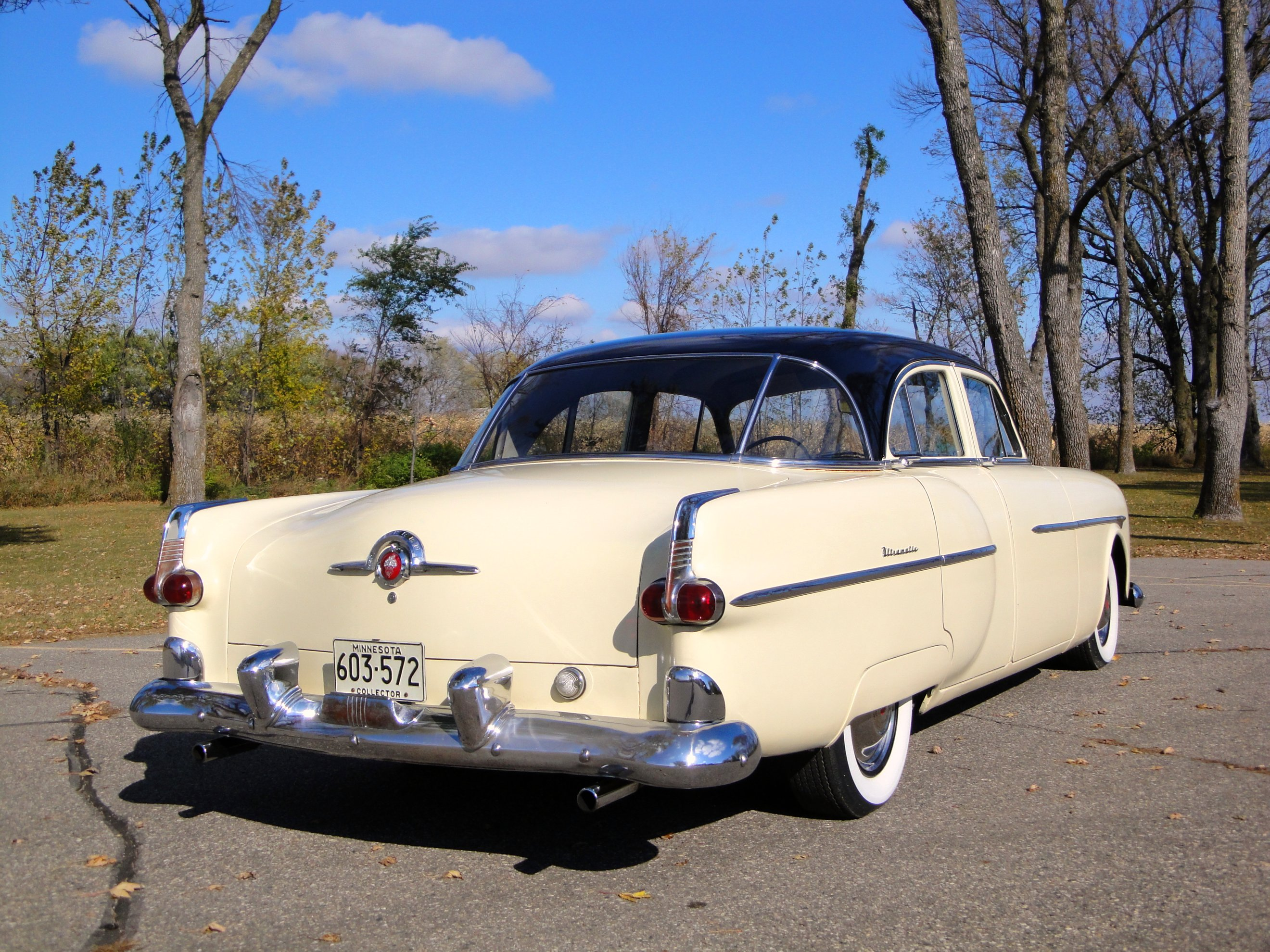 Now that Bud is mostly done with Ruby, his and Sharon's 52 Buick, he has started some crazy talk about selling his 51 Packard. I asked if I could get some pictures before the Packard is gone.